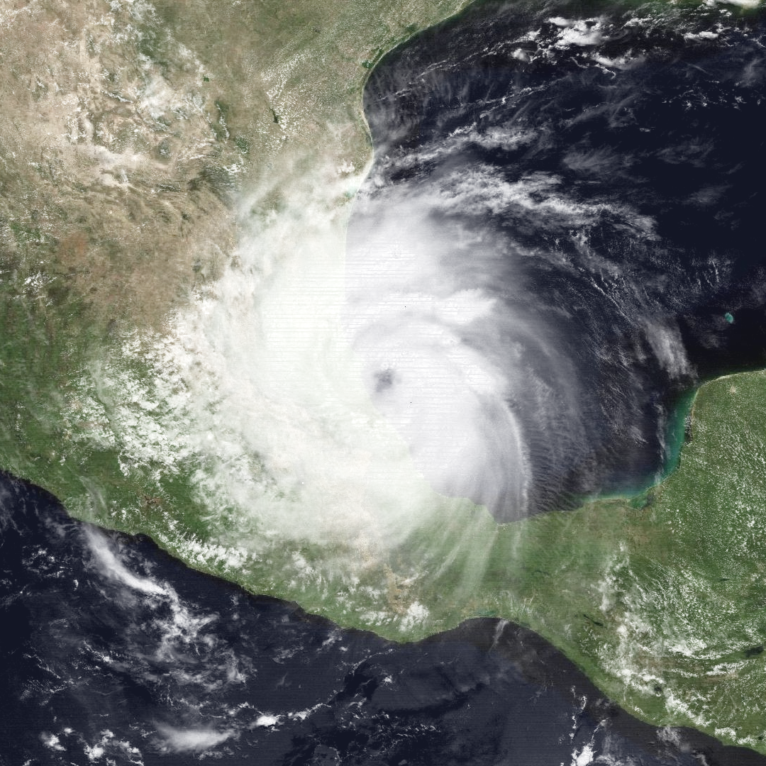 Hurricane Diana at peak intensity near landfall in Mexico on August 7, 1990